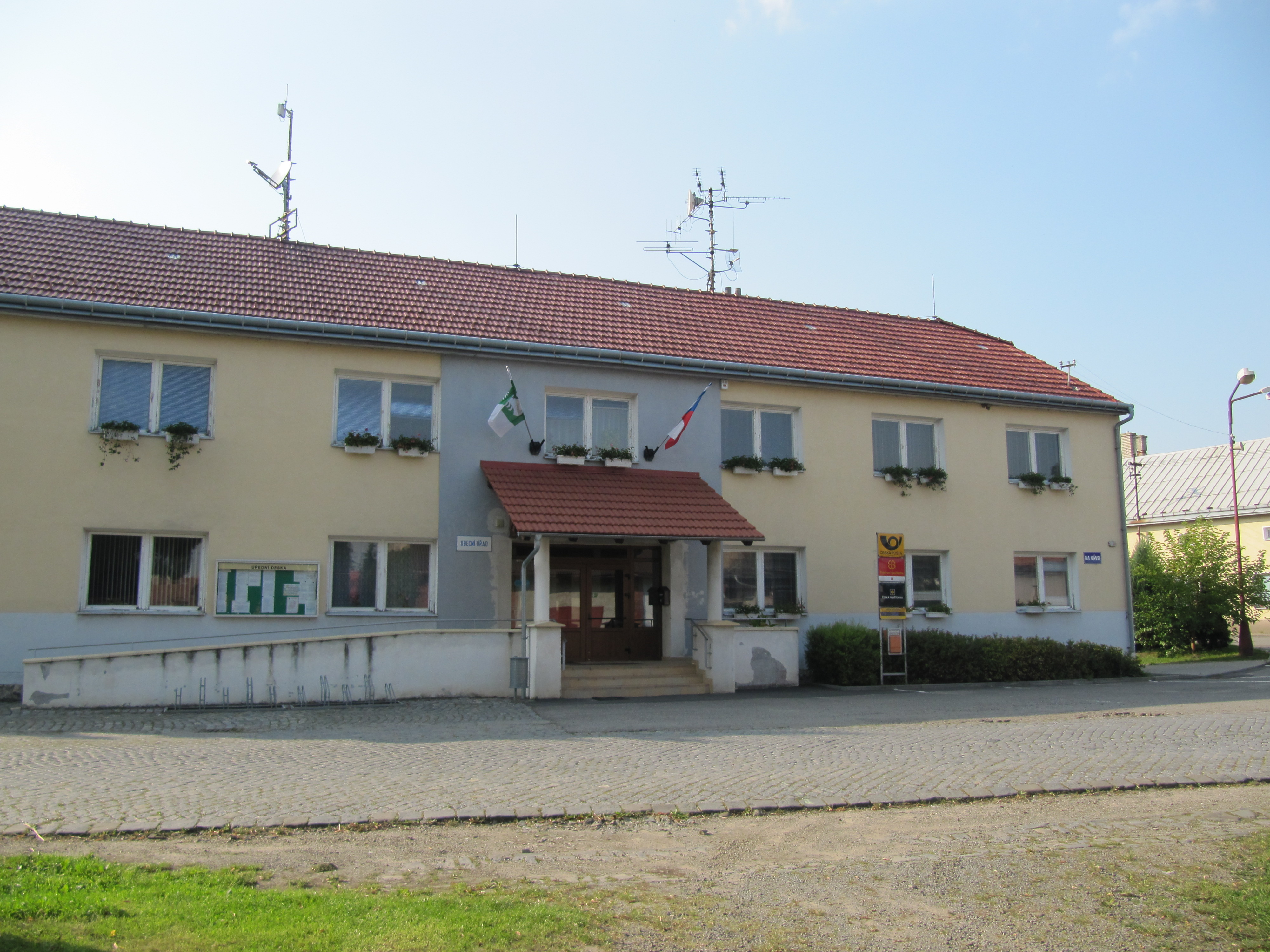 Radslavice in Přerov District, Czech Republic. Municipal office. This photograph was taken within the scope of the third year of the 'Czech Municipalities Photographs' grant.